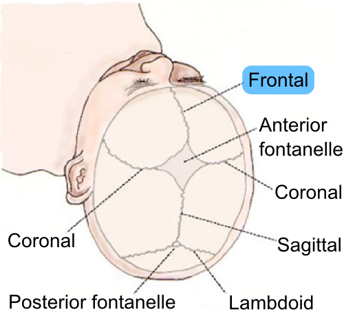 Frontal sutures seen from top of head